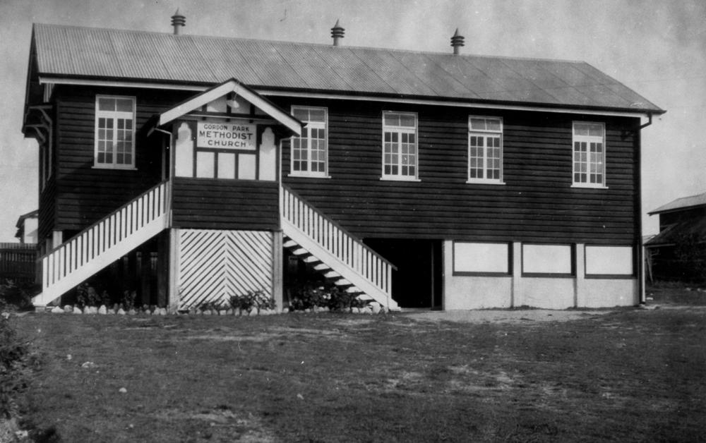 Gordon Park Methodist Church in Brisbane, 1931 The church was opened in 1929. (Description supplied with photograph).